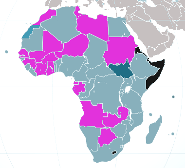 Qualified Nations for CAN 2012. Map of ALL African countries including Western Sahara and South Sudan. Note: This map is disputed.